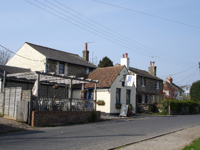 The Blue Anchor Public house Brabourne Lees